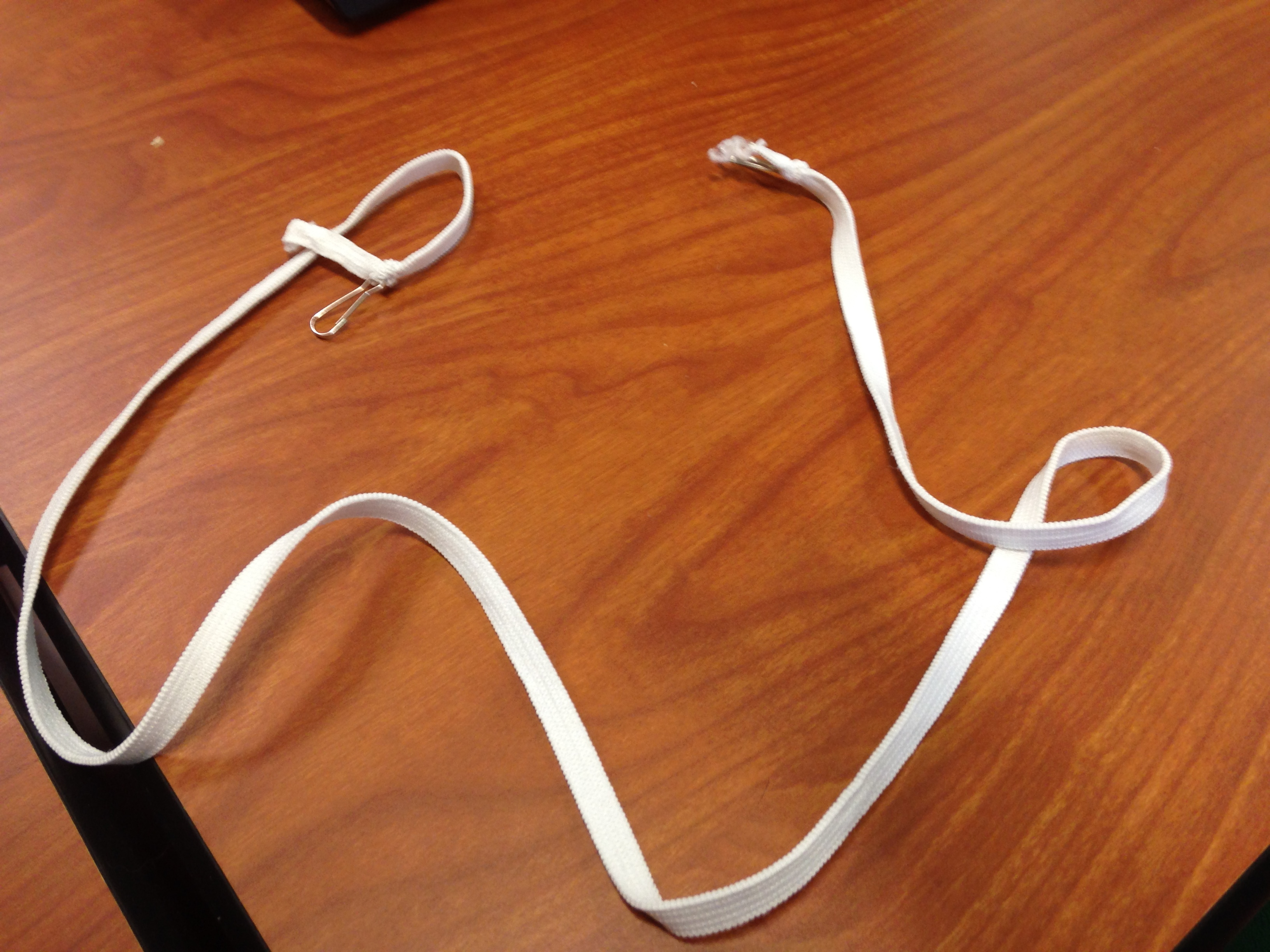 A Bendle serves the same purpose as a gartel does for Unmarried men in Hasidic Communities. It is also used to hold keys on the Jewish Shabbos.